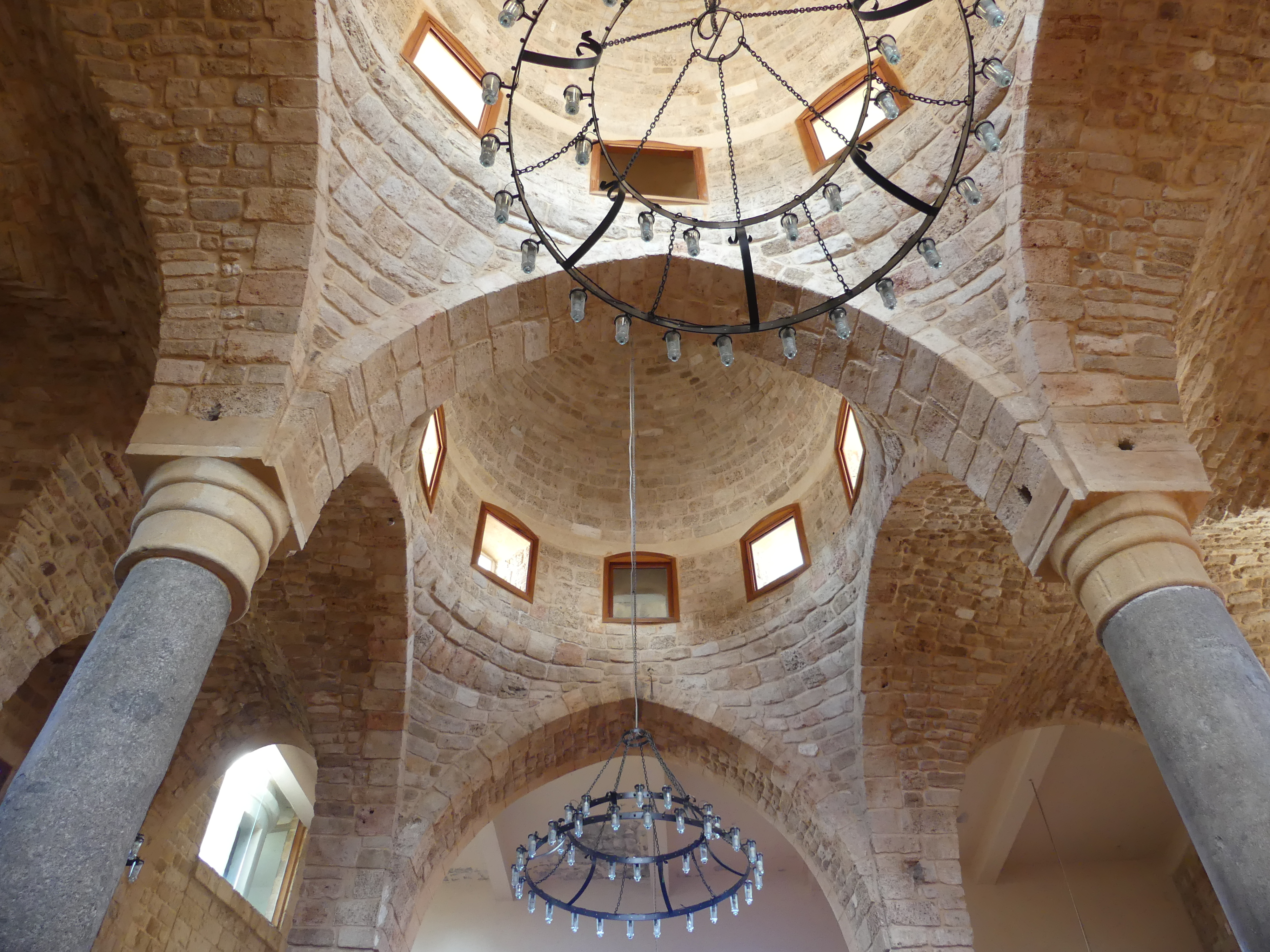 The two central Roman granite columns inside the Jafariya Mosque of Tyre/Sour, Southern Lebanon, constructed in 1928 and named after Sayed Abdul Hussein Sharafeddin (1872-1957), who as the Shiite Imam of the city was a social reformer.